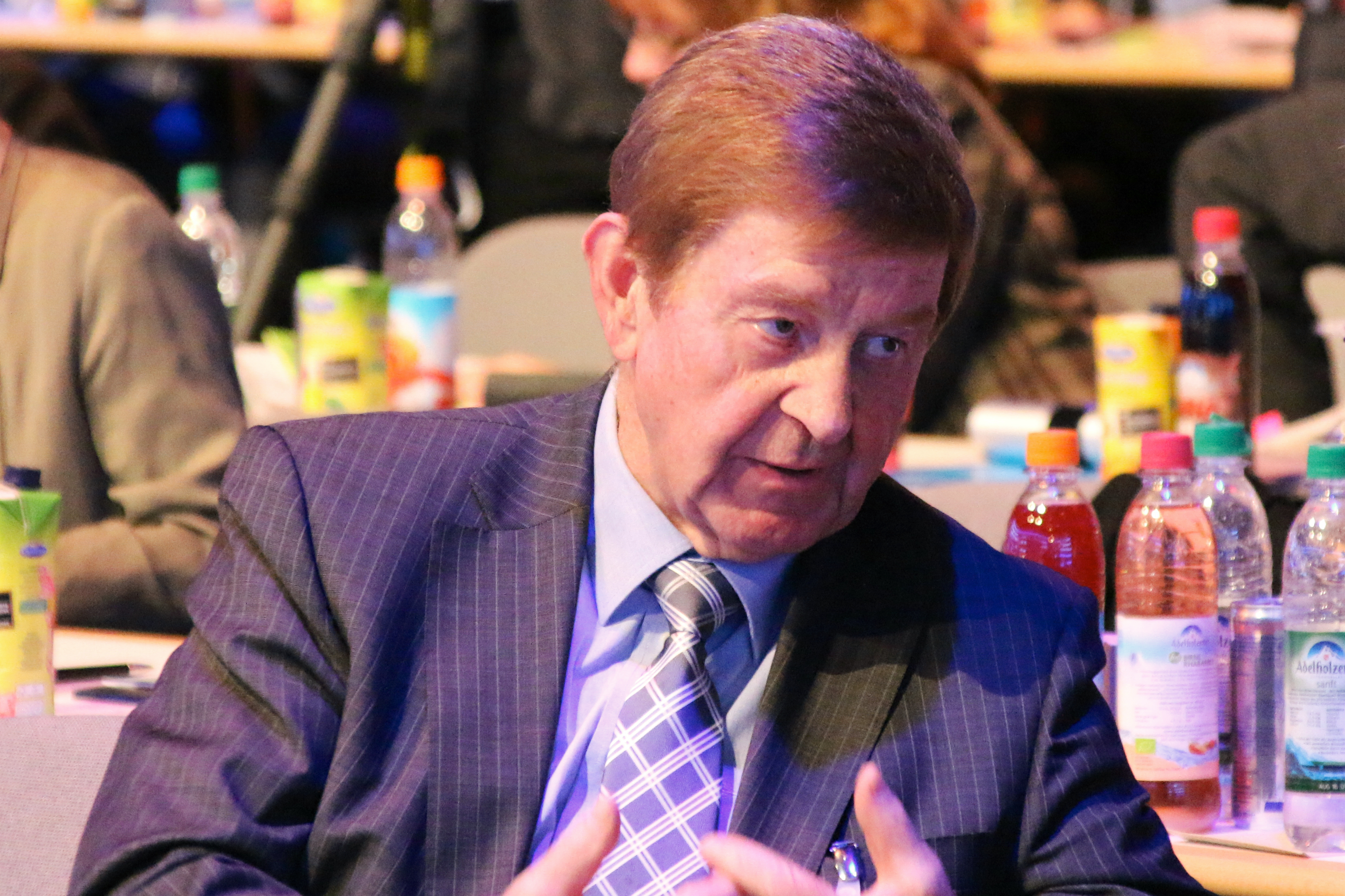 Otto Wiesheu, former Bavaria's minister of economy (CSU)